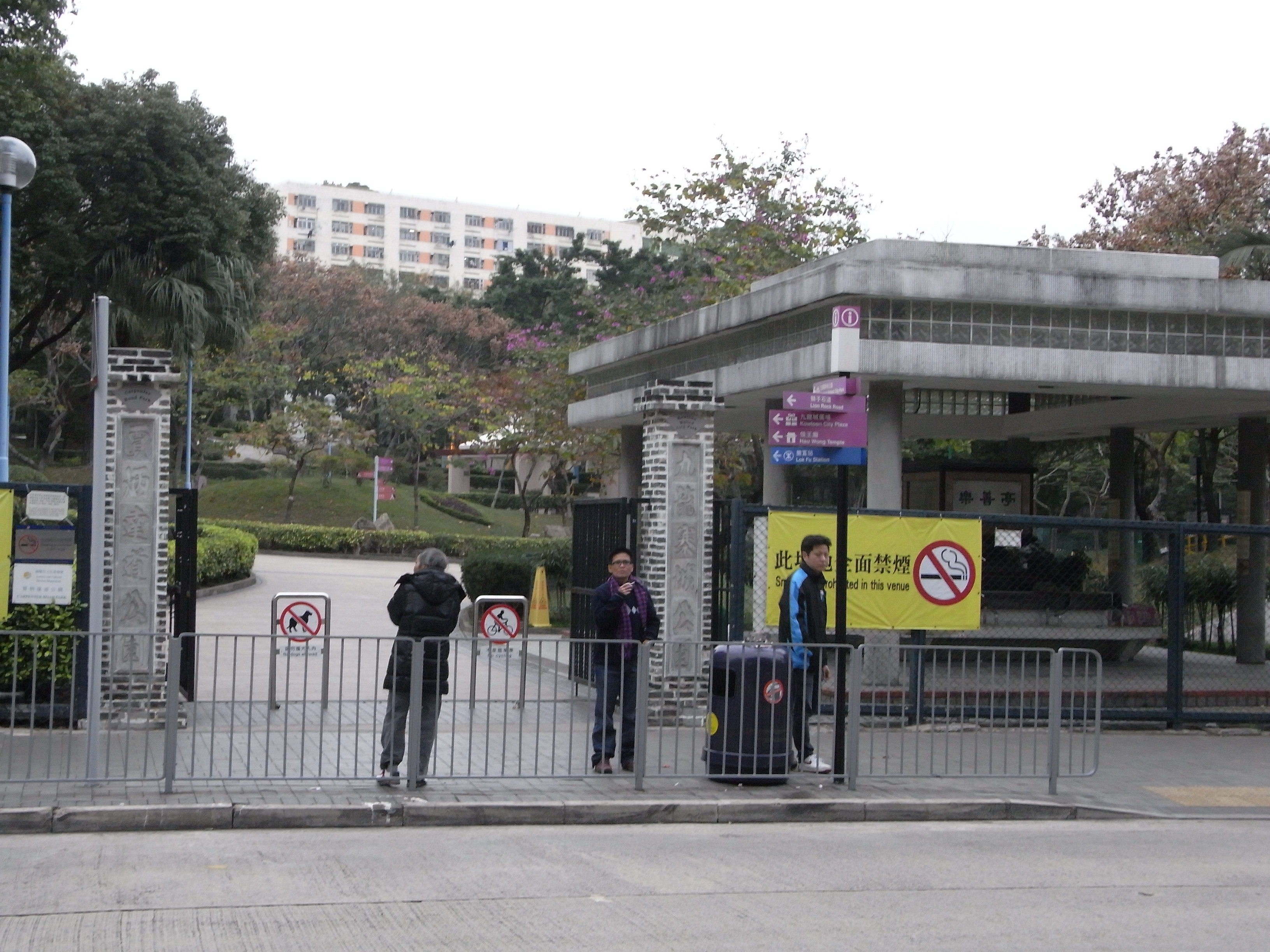 九龍城 賈炳達道 賈炳達道公園